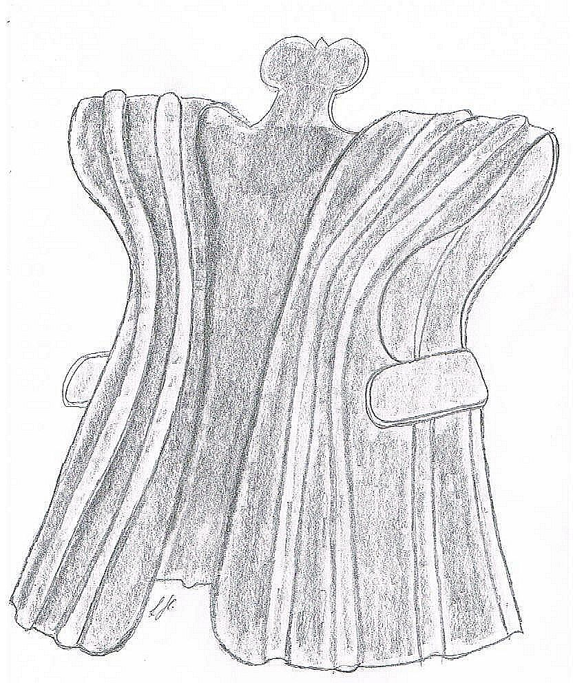 Baru Oroba